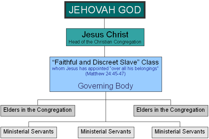 Diagram Representing Organisational Structure of Jehovah's Witnesses